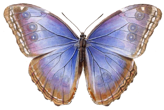 Morpho octavia = Morpho helenor octavia Bates, 1864 (upperside)